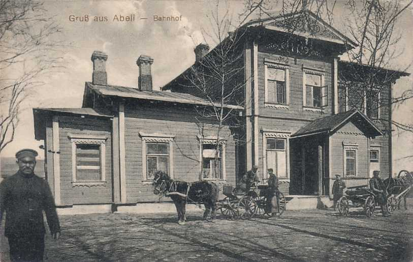 Railway station in Obeliai, Lithuania.